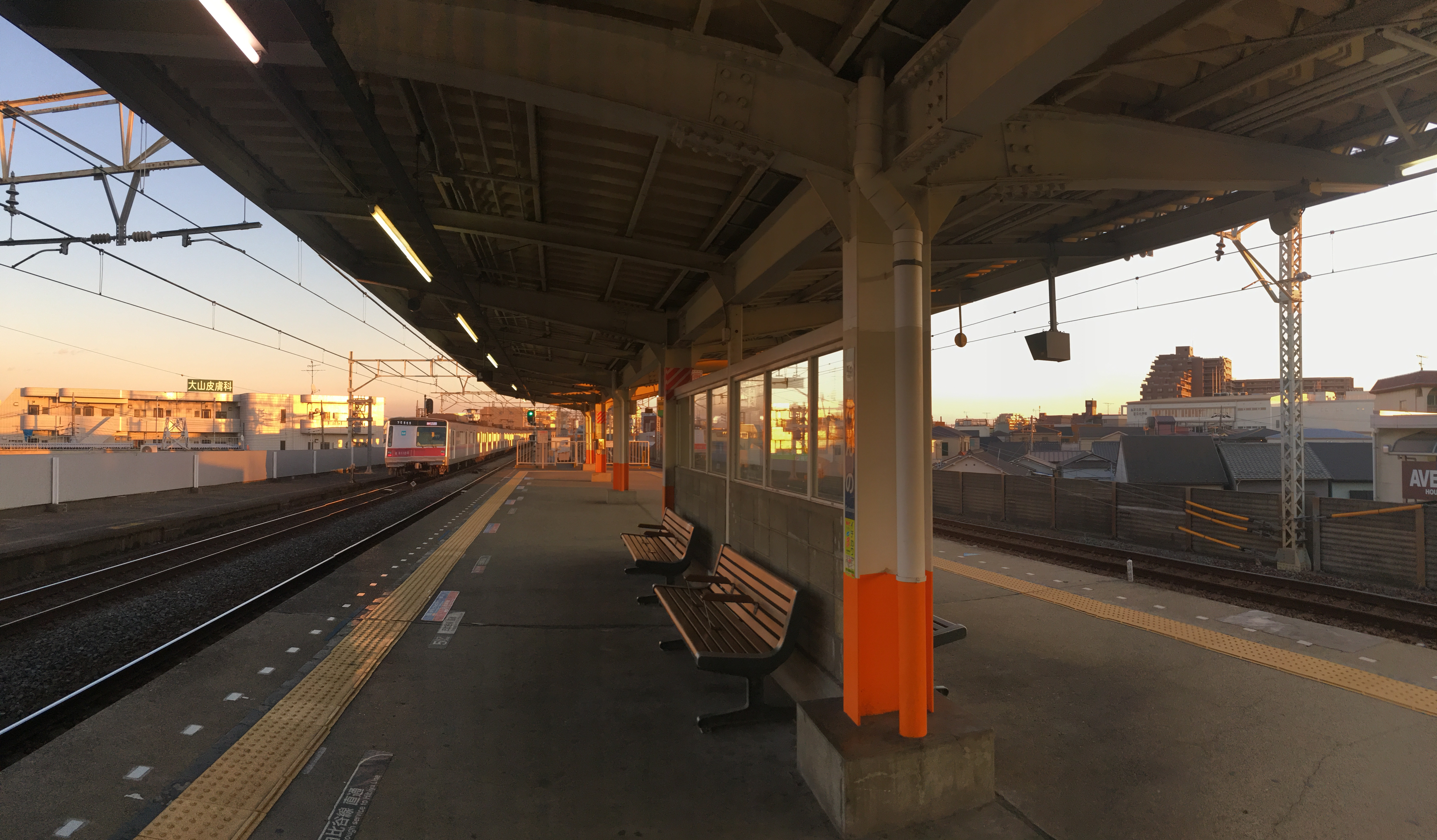 五反野駅のホーム (Gotanno Station platforms)